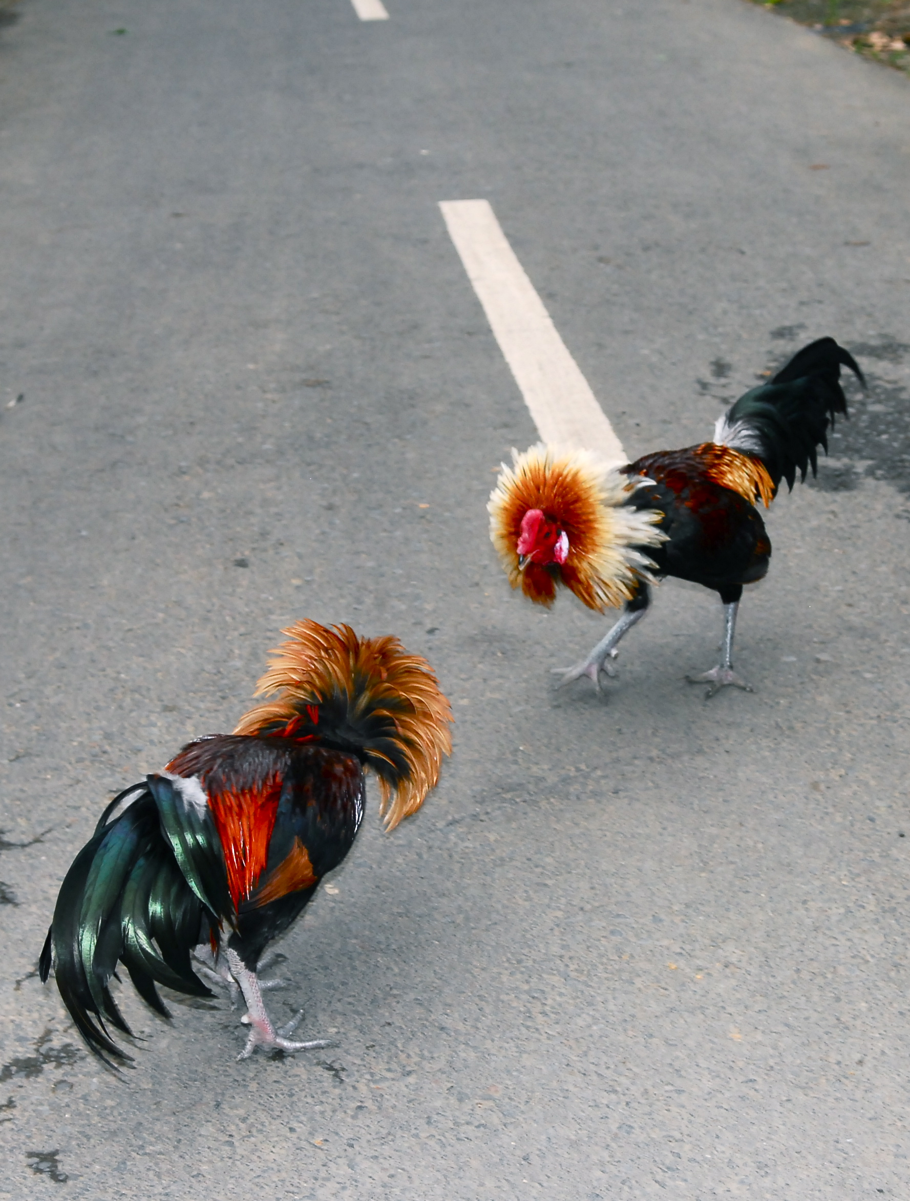 A pair of Indonesian roosters about to fight. Ubud, Bali.